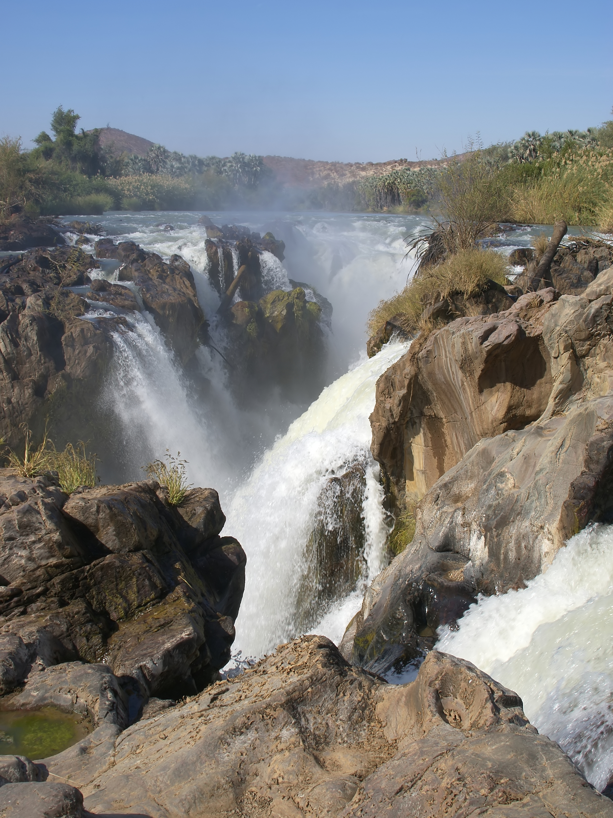 Detail of the Epupa Falls on the Kunene river, Namibia.